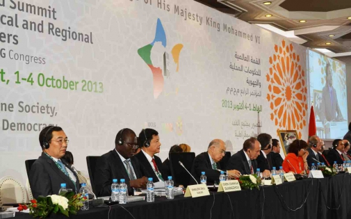 Presidium taken by the newly elected 2013-2016 UCLG Presidency, chaired by 2010-2016 UCLG President Kadir Topbaş (Istanbul) and UCLG Treasurer Fathallah Oualalou (Rabat). Clearly recognizable are UCLG Co-President Chen Jianhua (Guangzhou) & UCLG Vice-President Aisen Nikolaev (Yakutsk).